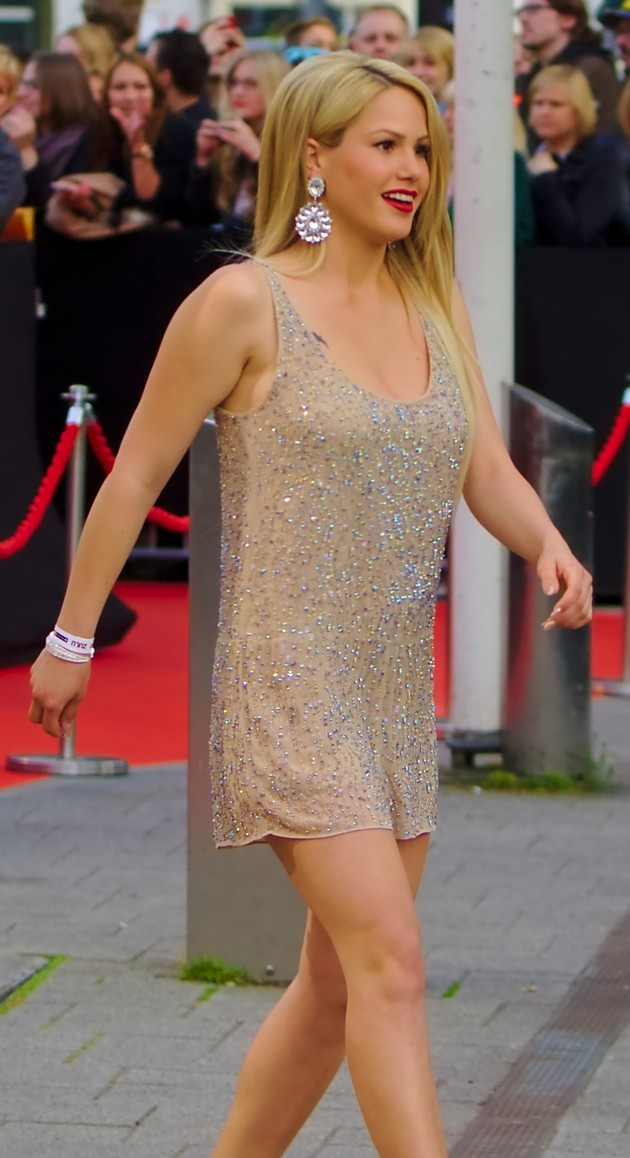 Filmpremiere "Zulu" in Hamburg, 5. Mai 2014